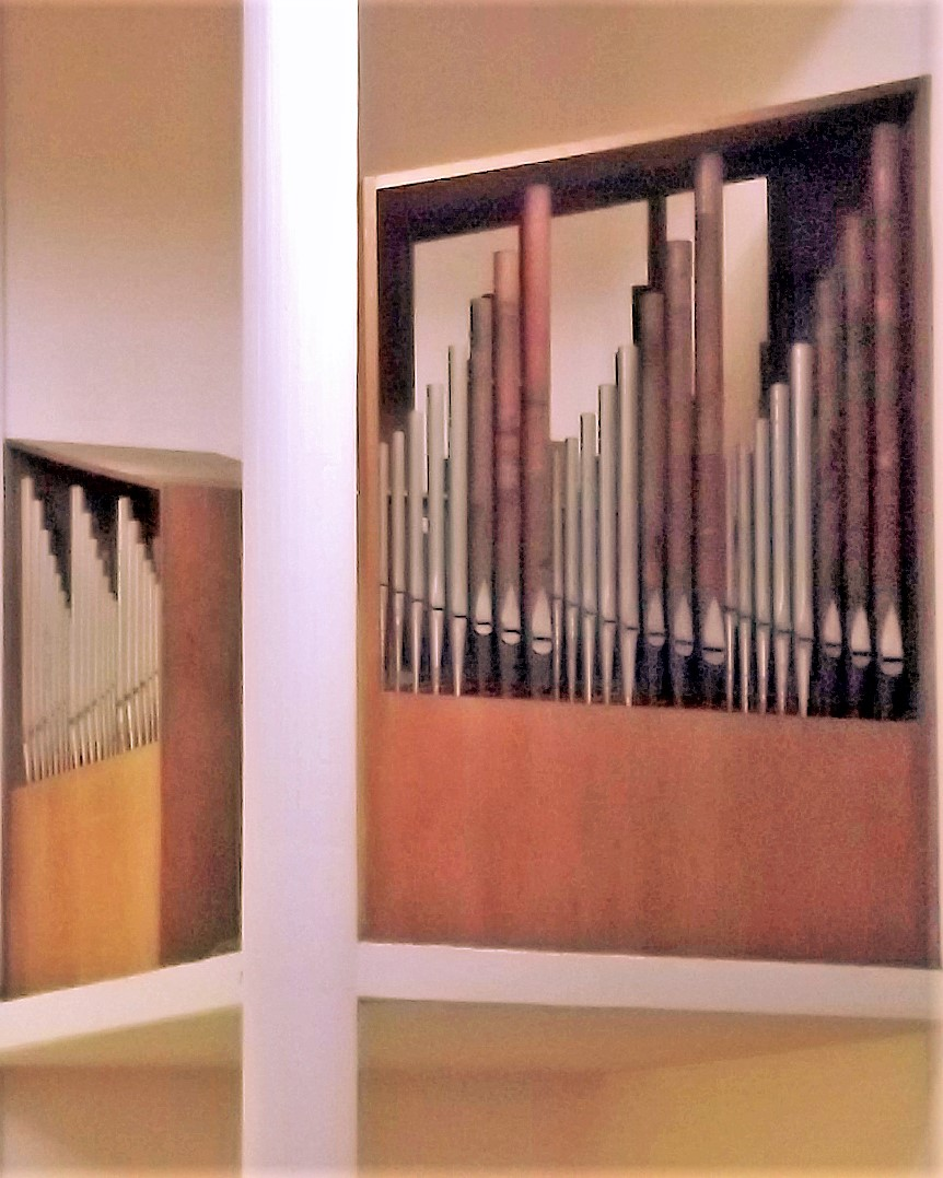 Interior of the roman catholic St.-Elisabeth's-church in Saarbrücken, Saarland, Germany